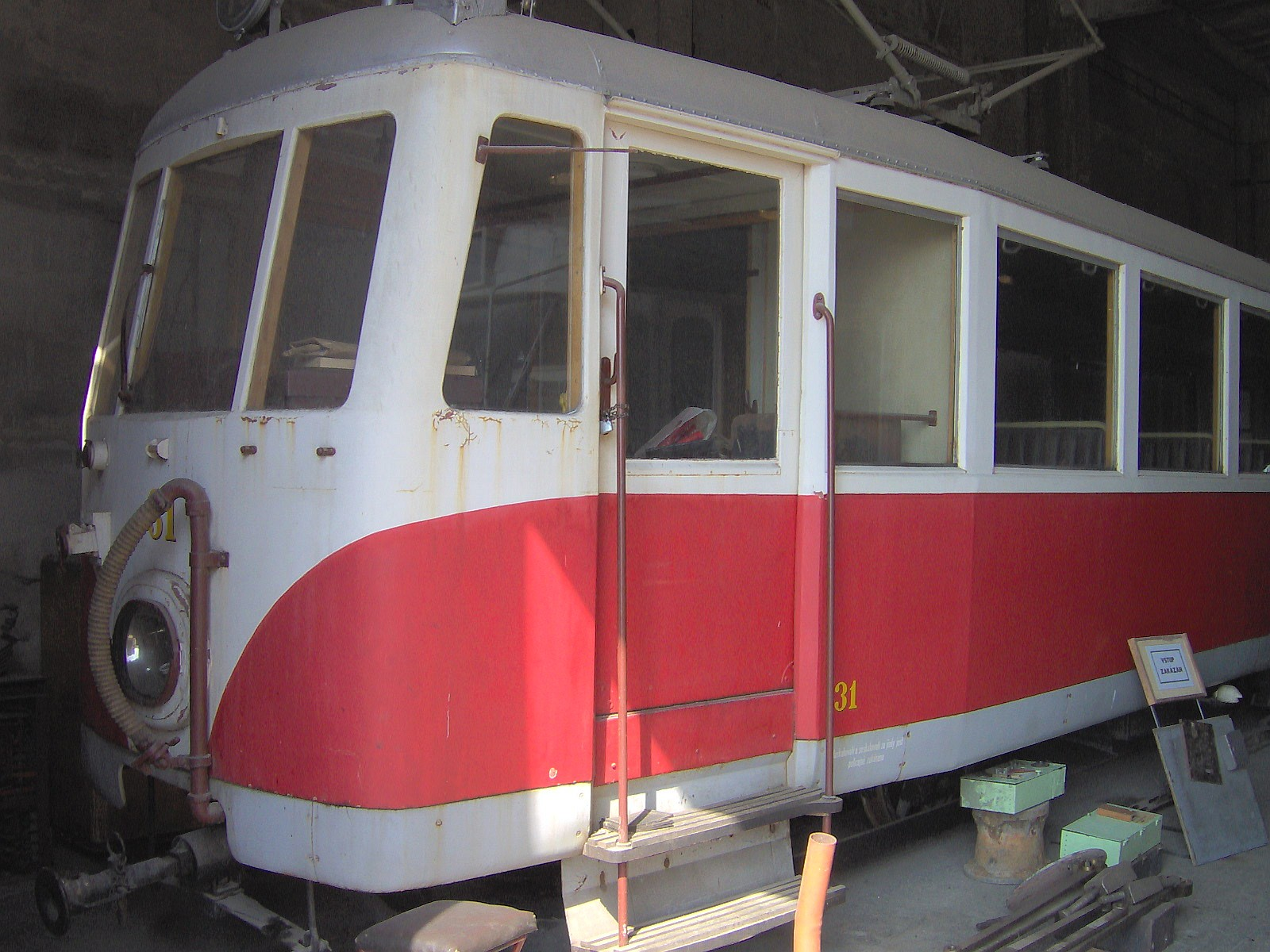 Historical tram No. 31 from Místní dráha Ostrava - Karviná in Brno, Czech Republic